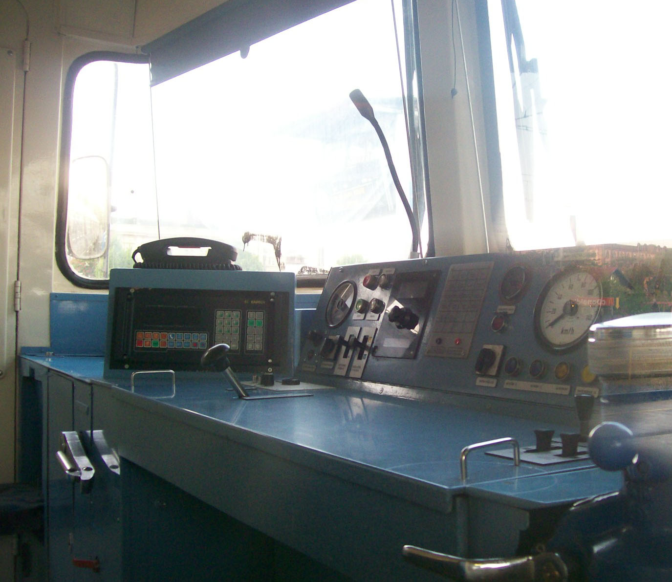 HŽ Class 7121 cabine